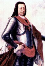 Portrait of Gomes Freire de Andrade, Count of Bobadela, Governor of colonial Rio de Janeiro